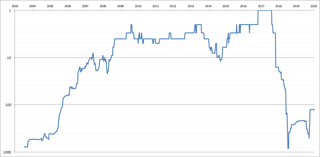 Andy Murray Singles Ranking History Overview Chart Note: official ATP table has an obvious error for data entry at the date '2012.07.02' (2nd July 2012) citing an erroneous rank of 0, which is not technically possible for an intermediate week between several continuous and consecutive weeks that precedes and follows it. Thus, to prevent a discontinuity in the chart I have manually entered an assumed ranking of '4', since there was no change on ATP list for the previous and next week ranking for Andy Murray.